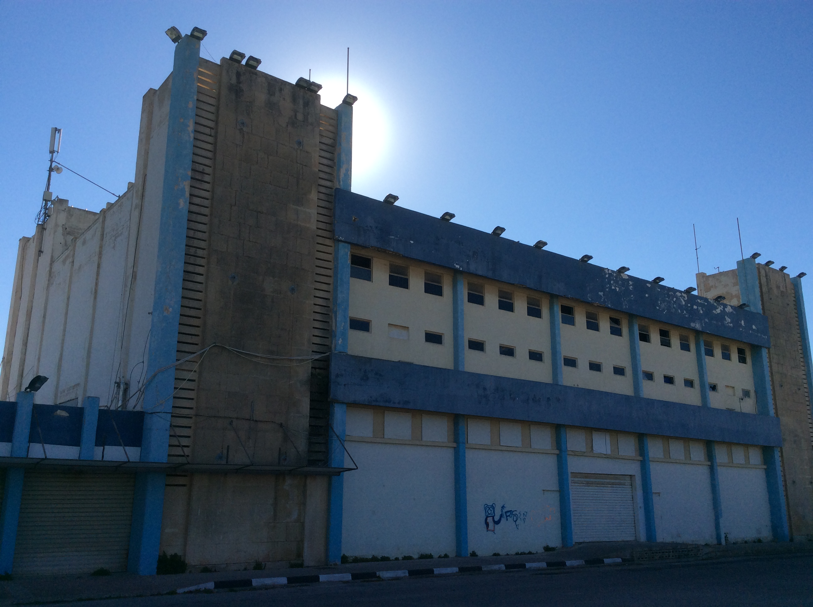 Building in Naxxar